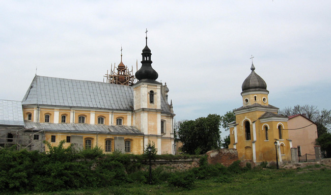 Former monastery of dominican, today Greek Catholic church of Saint Nicolas, Belz